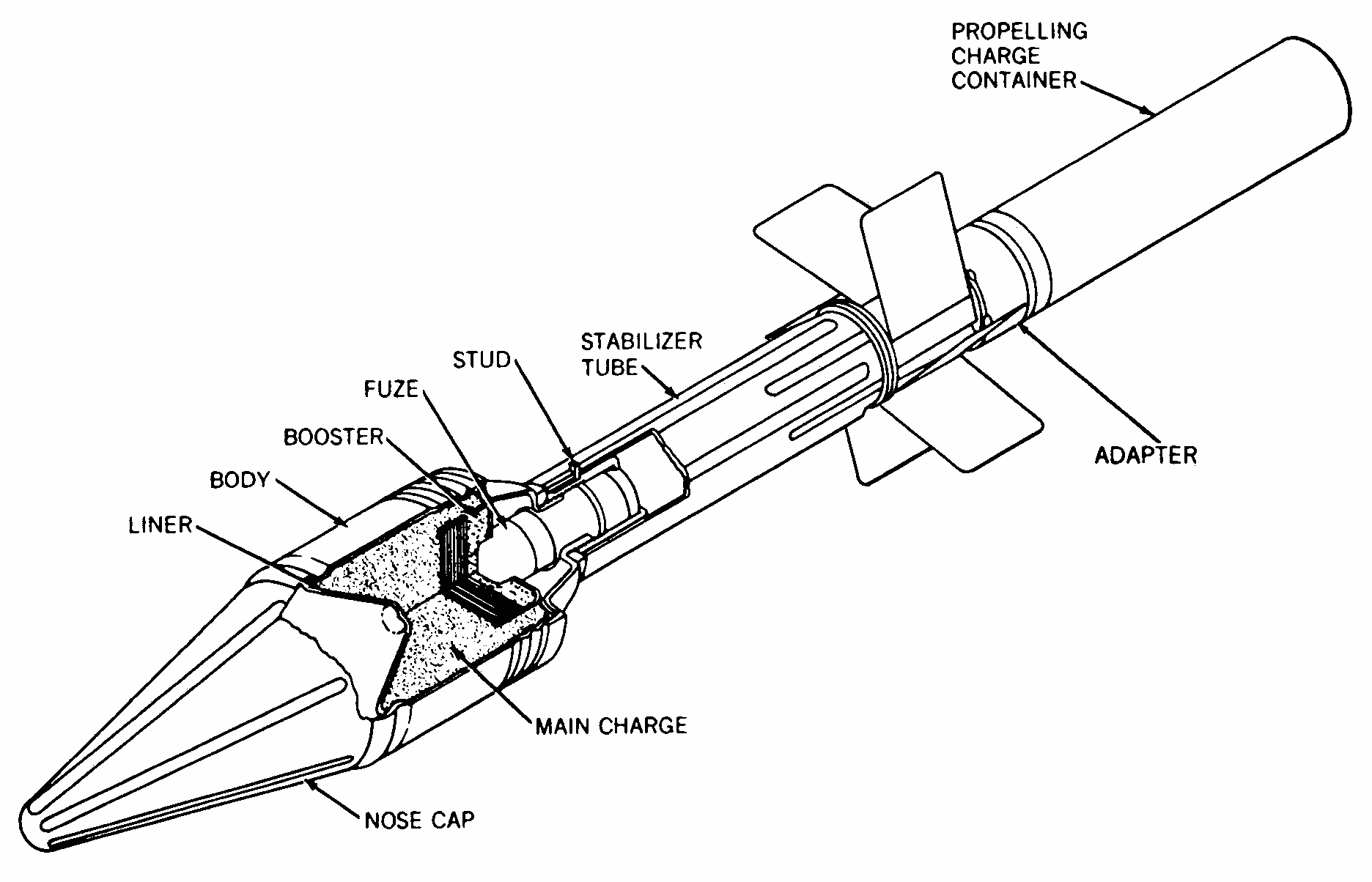 Cutaway view of PG-2 rocket for RPG-2 launcher